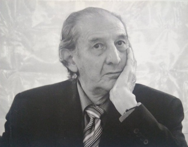 Eduardo Lizalde, important mexican poet.